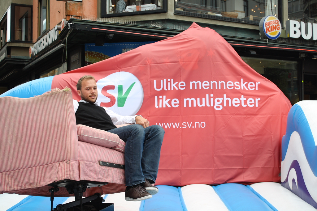 Deputy leader of Socialists left Party Audun Lysbakken at the opp av sofaen election event in Oslo 2009